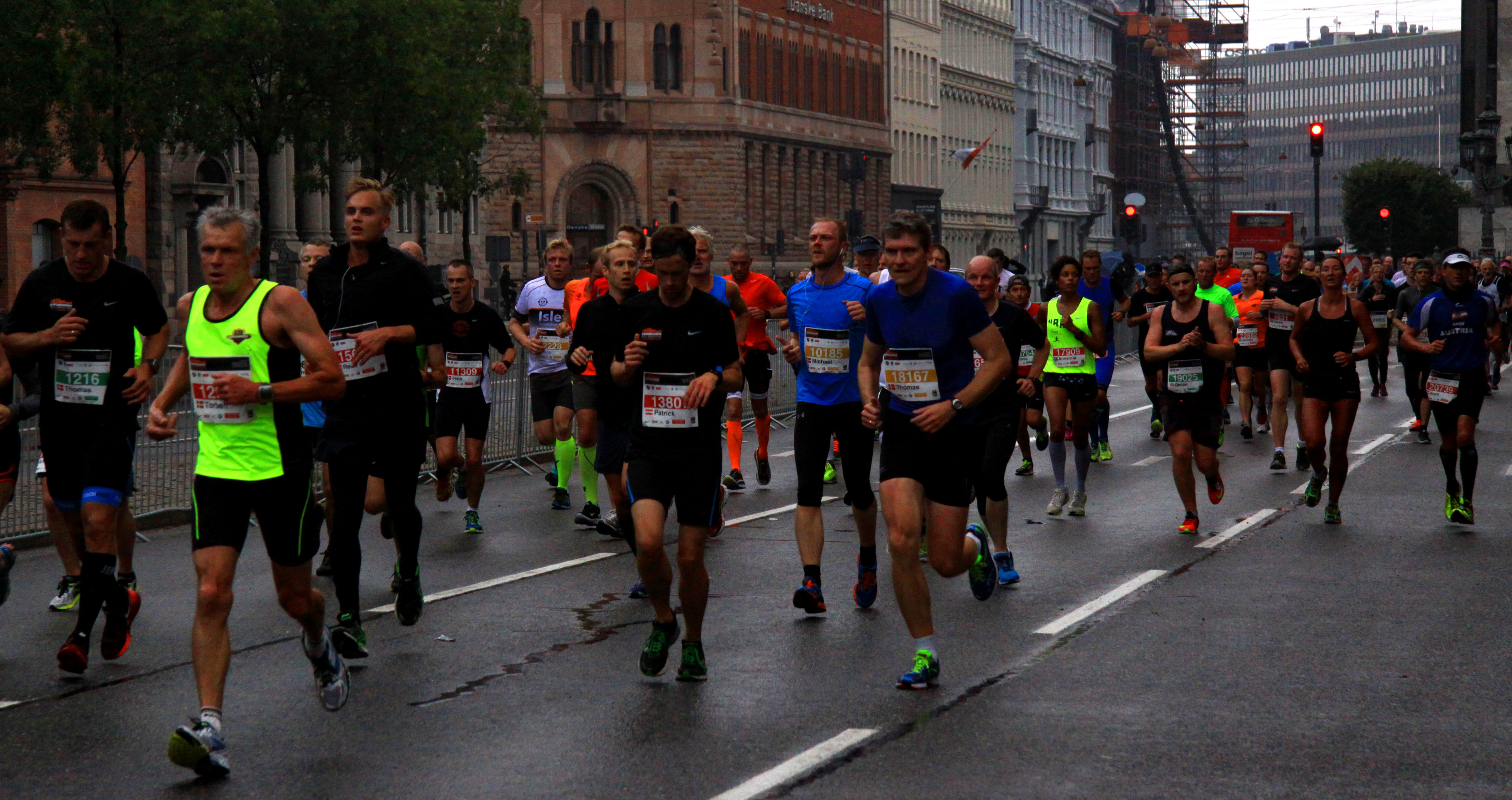 Runners at the 2015 Copenhagen Half Marathon. Købnehavn / Copenhagen. Halvmarathon i byen.